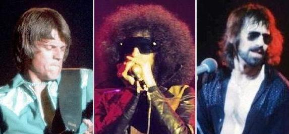 Composite showing J. Geils, Magic Dick and Peter Wolf of The J. Geils Band performing in concert